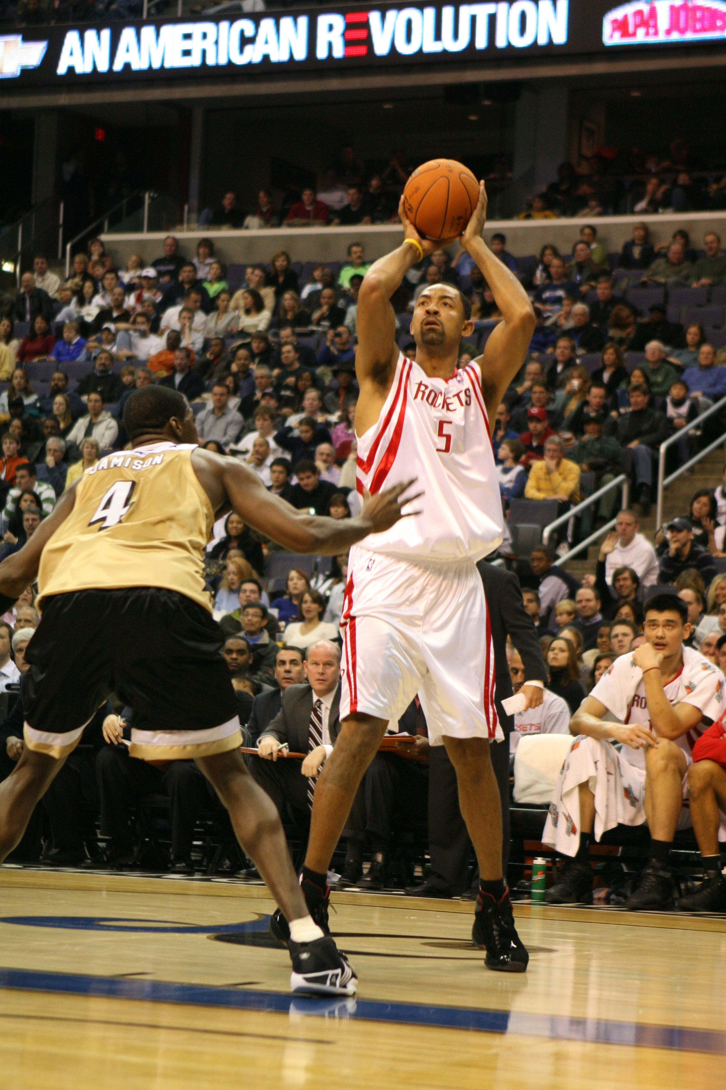 Yao Ming watches as Juwan Howard shoots over Antwan Jamison